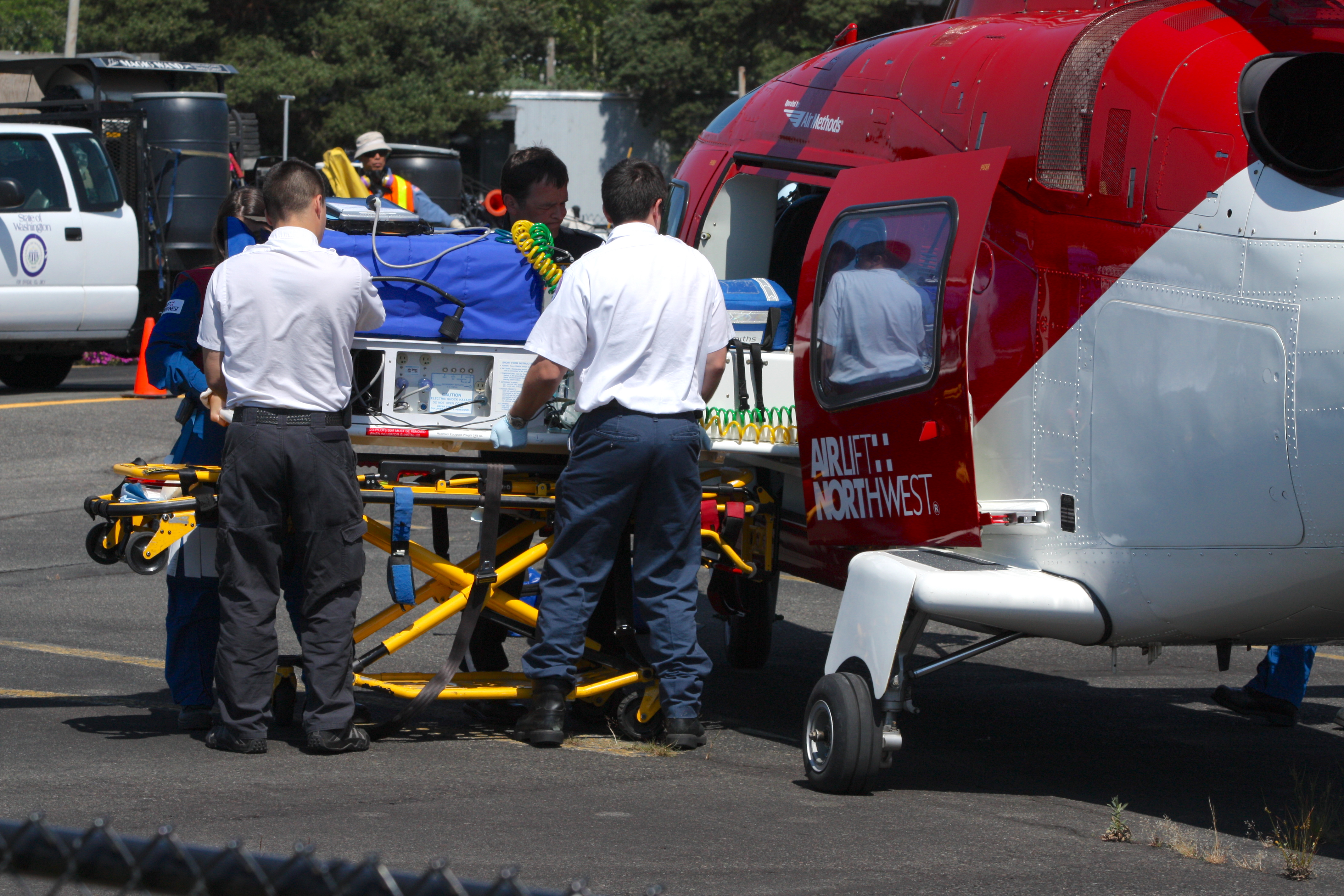 Air Ambulance AGUSTA SPA Model A109E; N1UW; either a premature infant or a child on ECMO, a form of heart/lung machine, is being transferred between hospitals FAA Registry